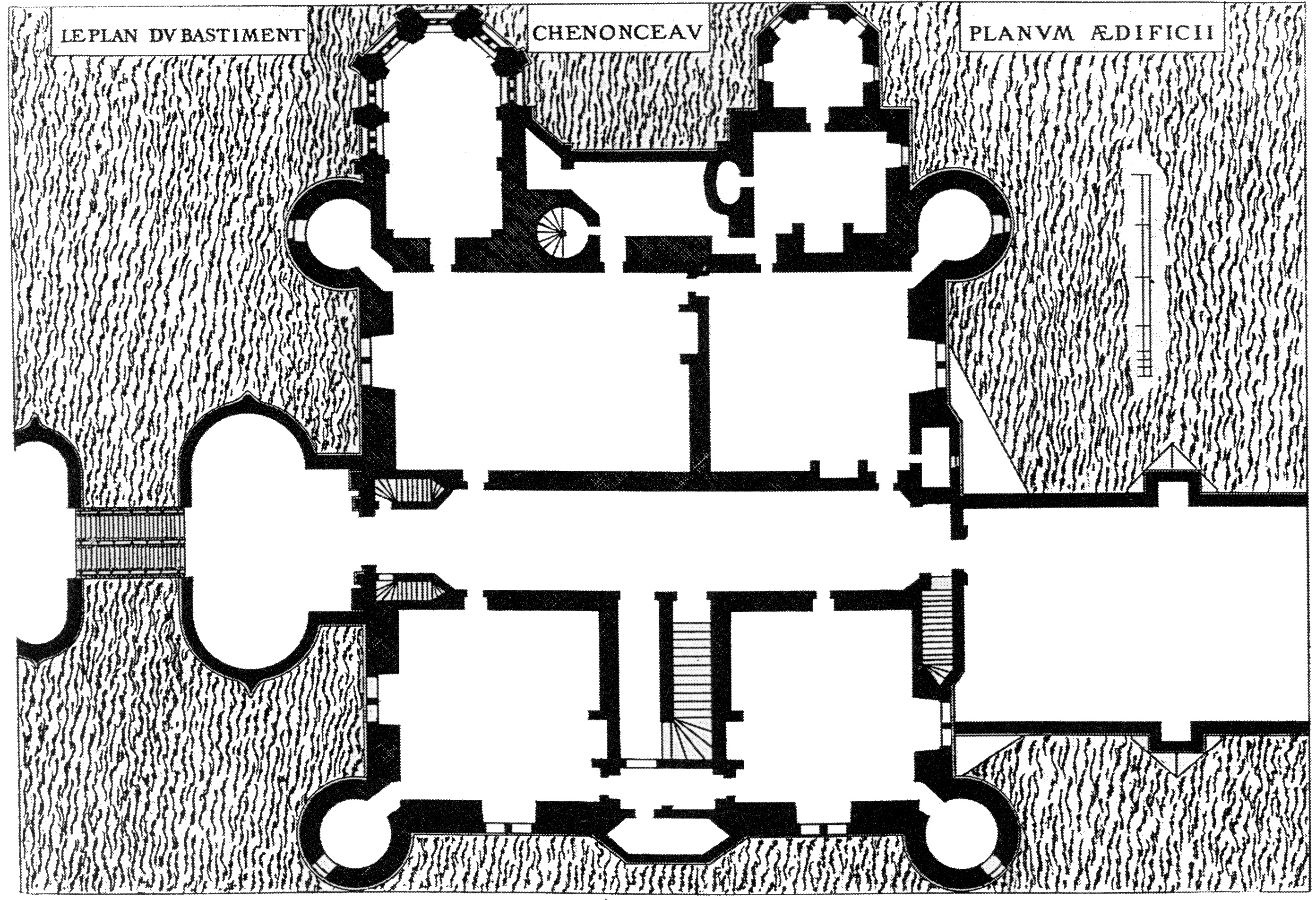 Plan of the Château de Chenonceau, engraving from Jacques I Androuet du Cerceau's second (1579) volume of Les plus excellents Bastiments de France.